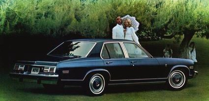 1975 Chevrolet Nova LN 4-Door Sedan